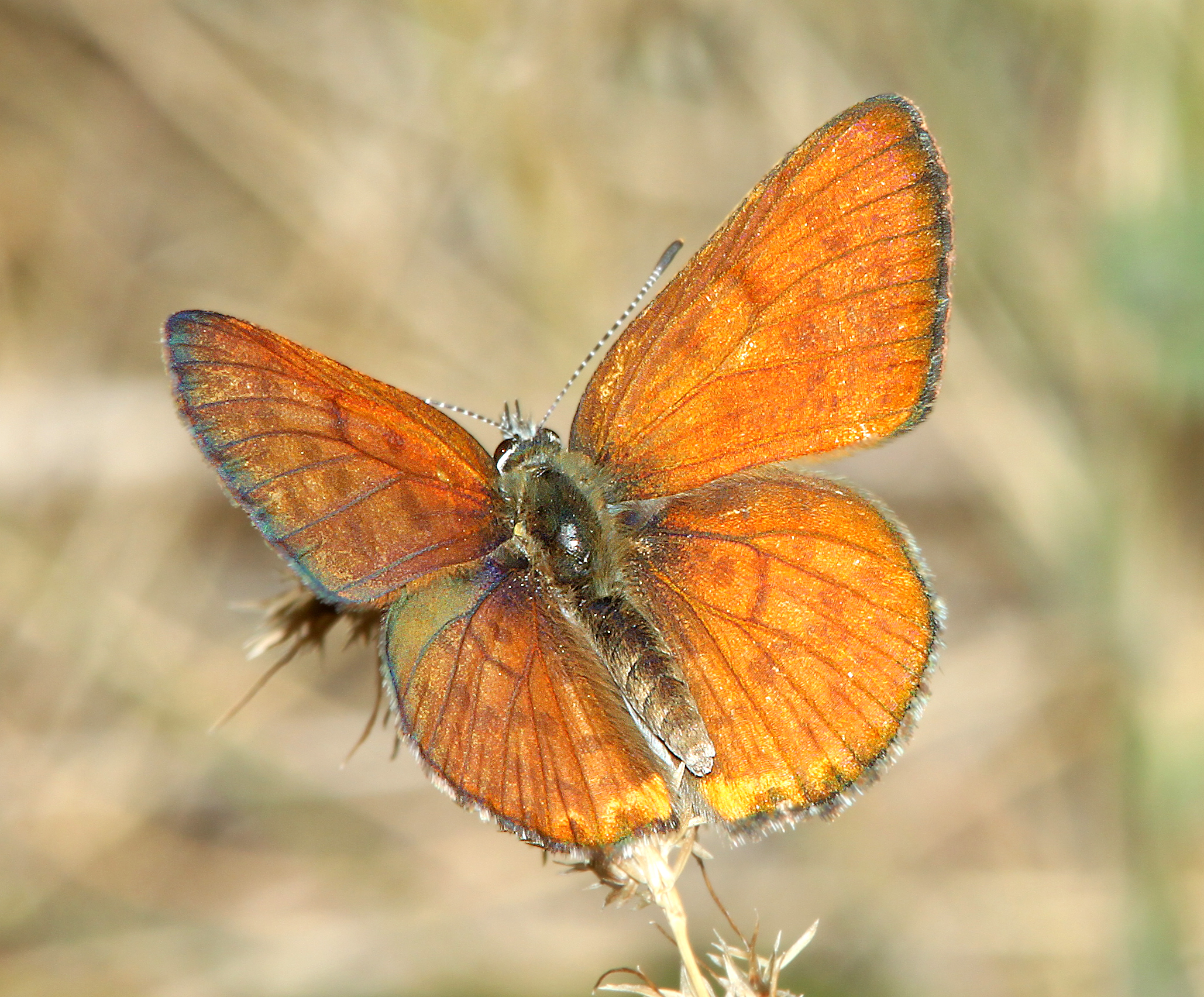 Butterflies of North America